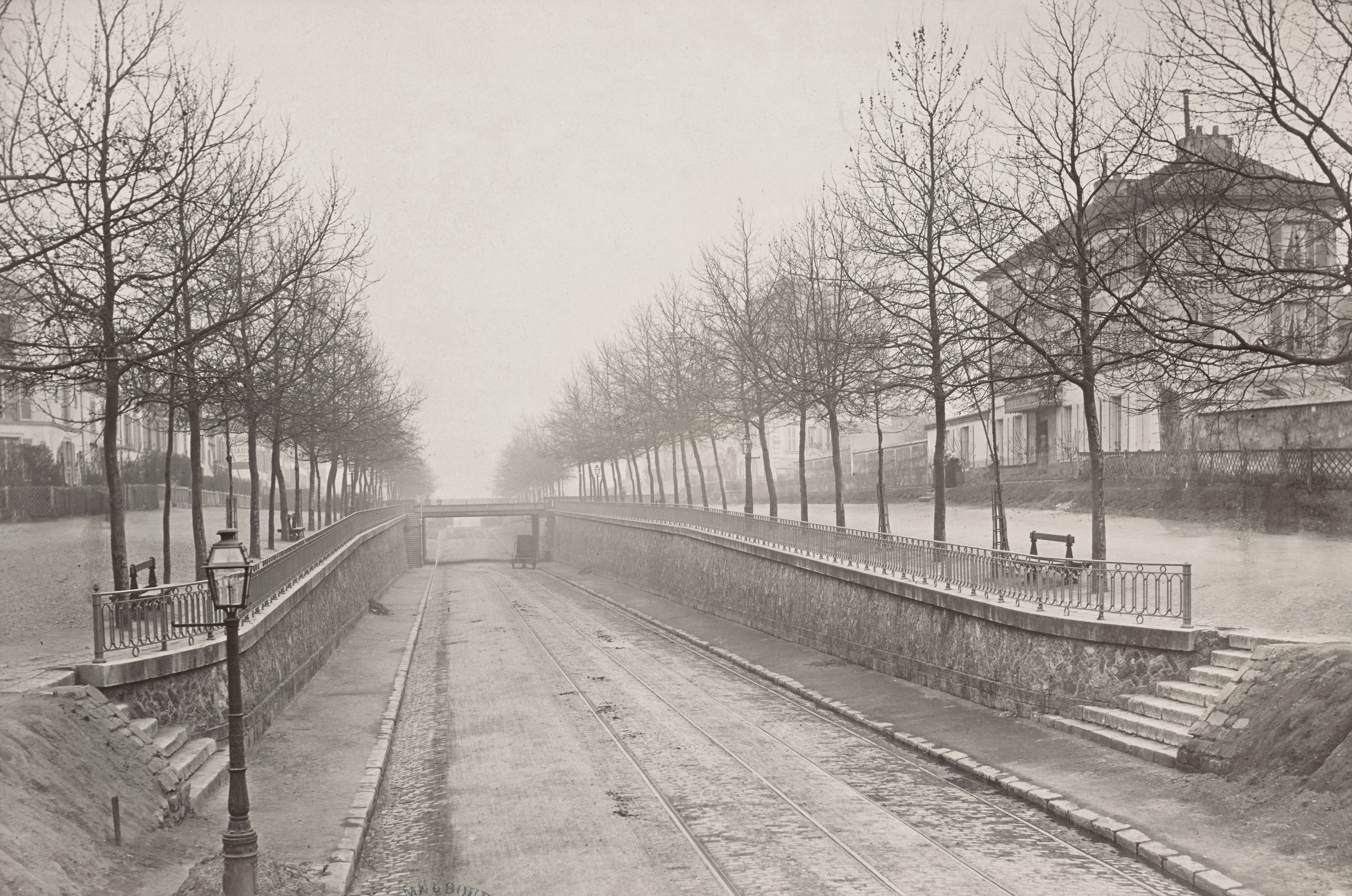 Looking along sunken tram lines with path along each side lined with trees, horse-drawn wagon near track in background. Avenue de Saint-Mandé